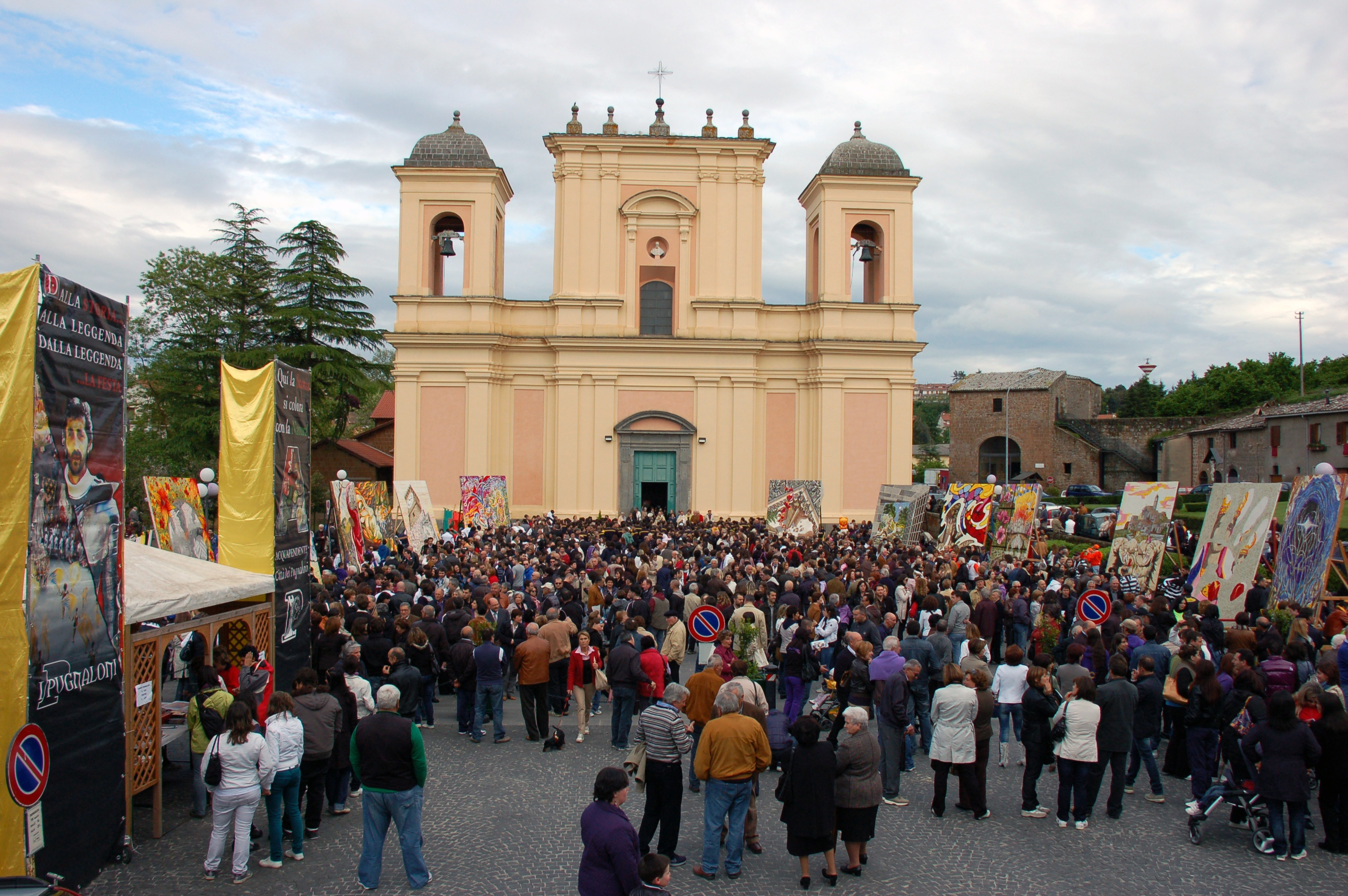 Pugnaloni exhibited in the cathedral square